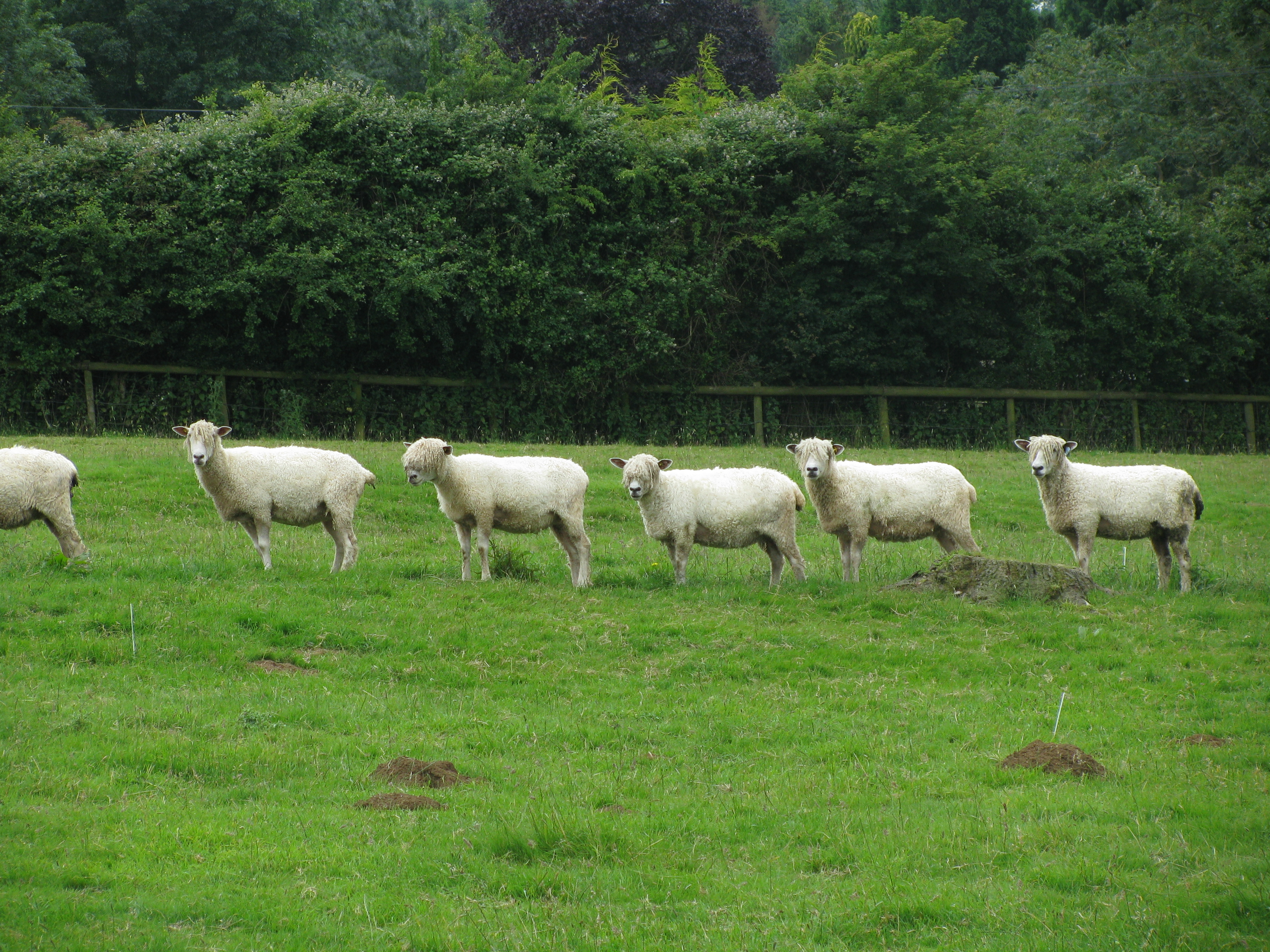 Cotswold sheep in Wyck Rissington, the Cotswolds, England, UK.